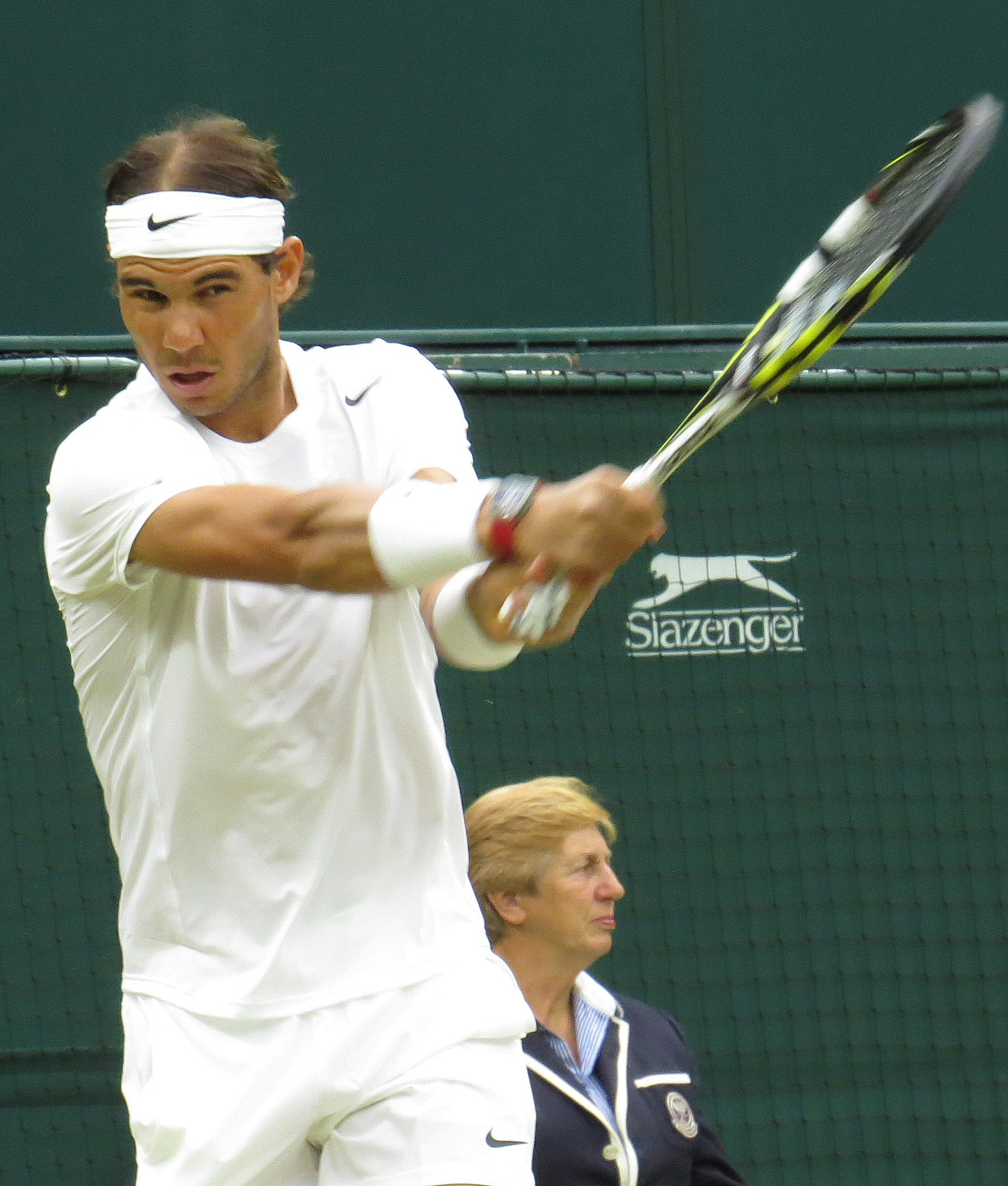 Rafael Nadal at Wimbledon 2014